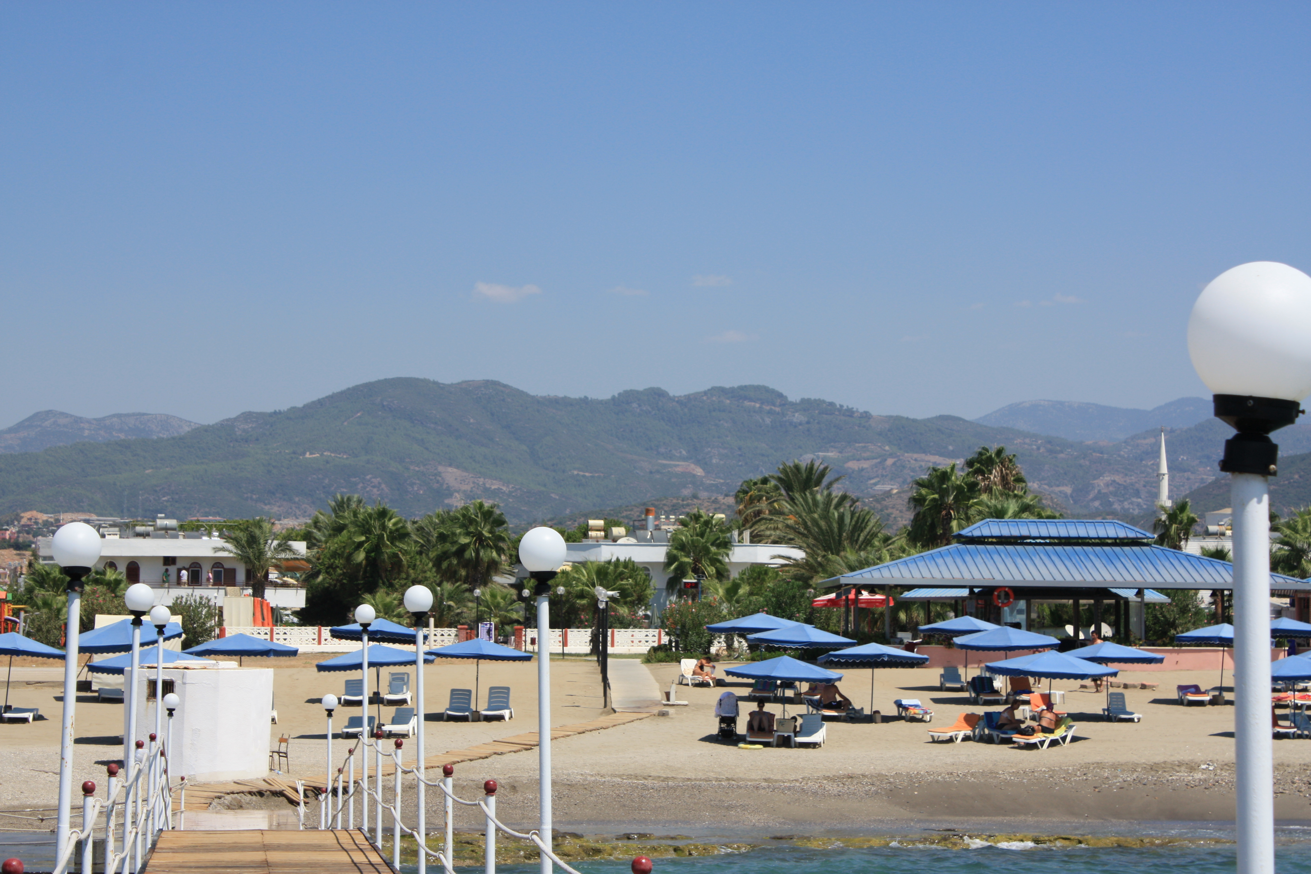 Taurus mountains view from the Mediterranean coast of Turkey.